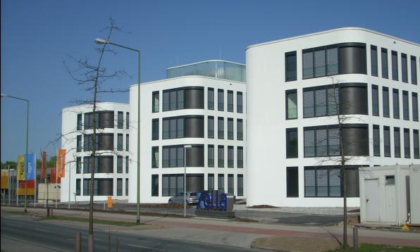 Headquarters of Xella, an international building materials firm, in Duisburg (germany), opend in April 2011